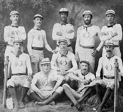 Baseball uniform(s) in the 1870's